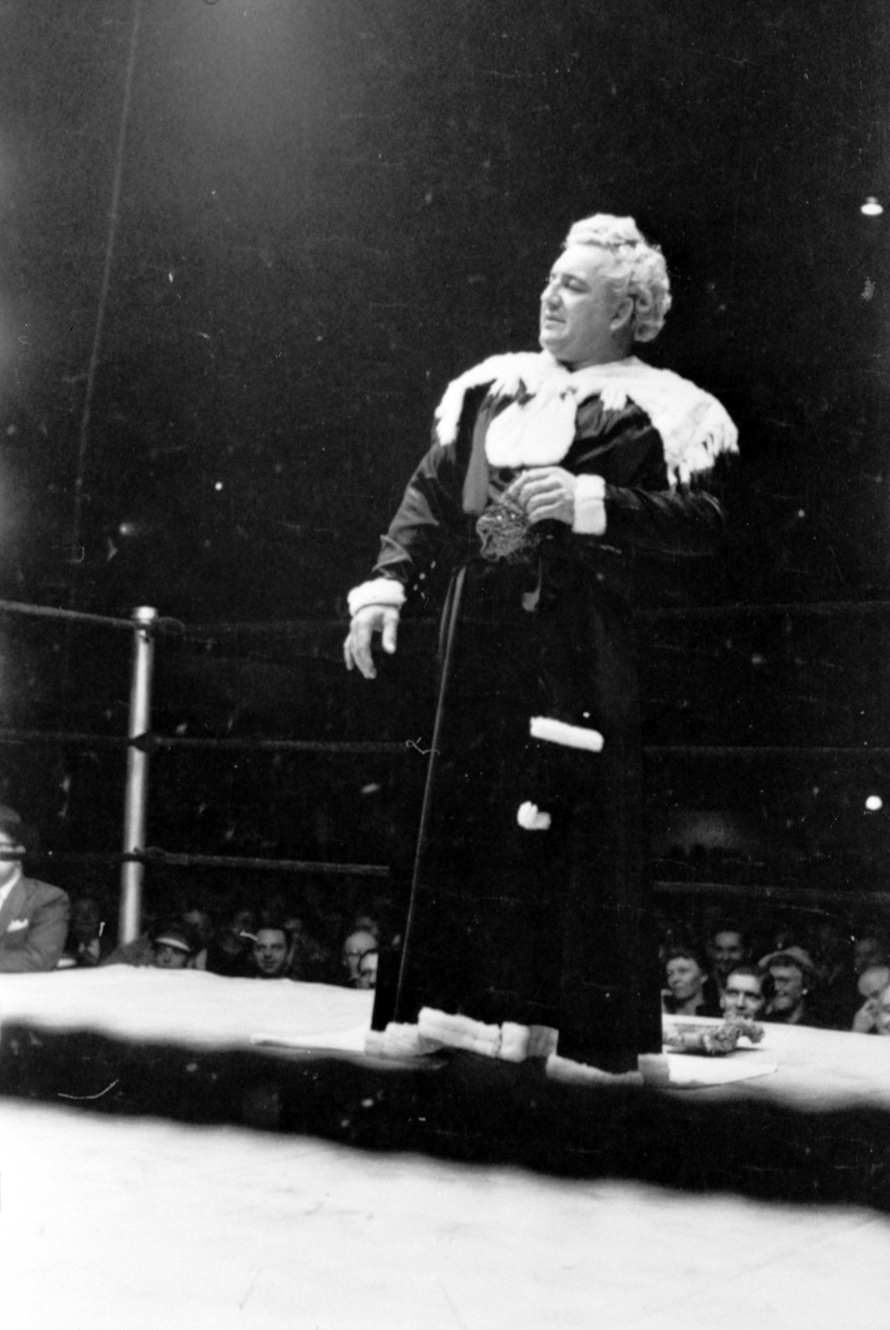 Gorgeous George, American professional wrestler. Image from Look photographic assignment with title: Chicago city of contrasts.